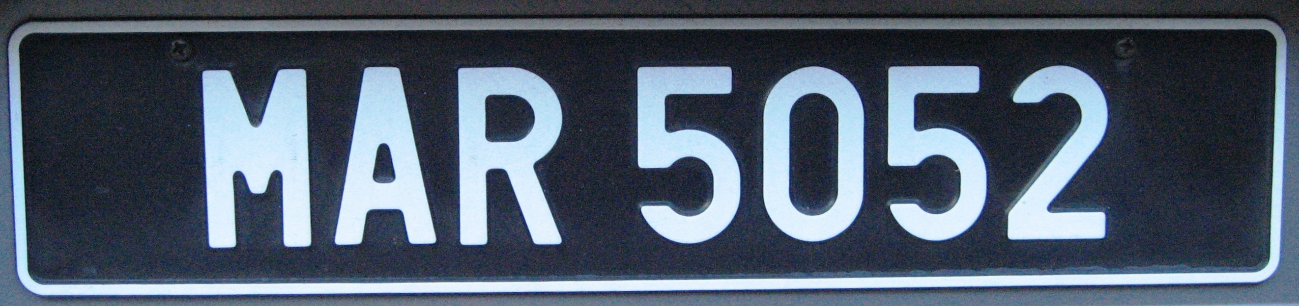 License plate from Malacca state, Malaysia.